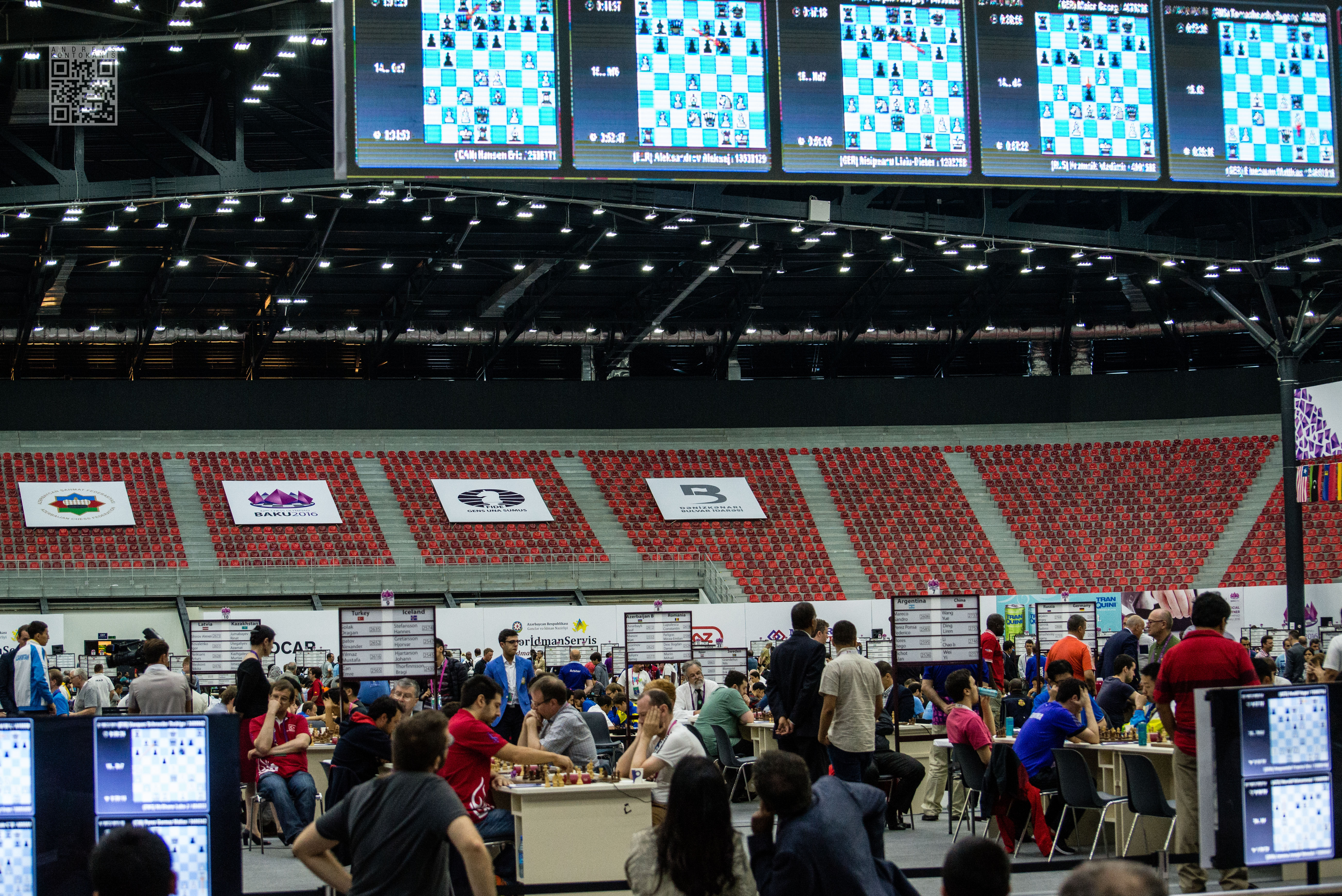 General view of Baku chess olympiad